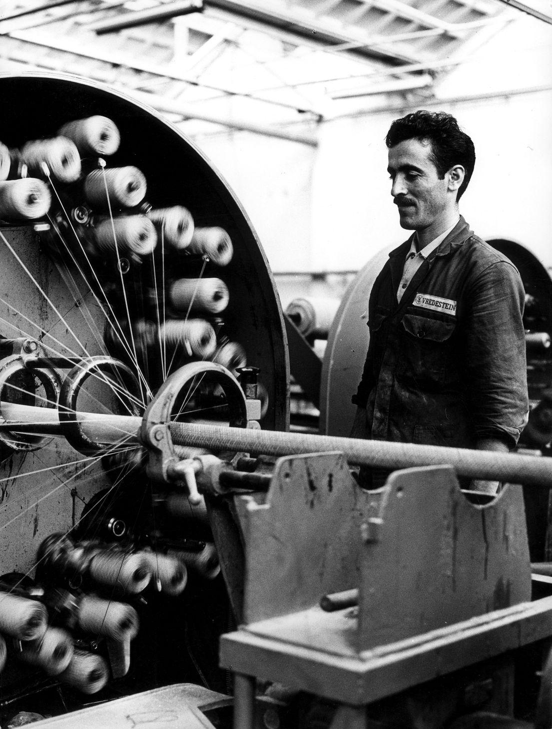 Nationaal Archief/Spaarnestad Photo/Van Eijk